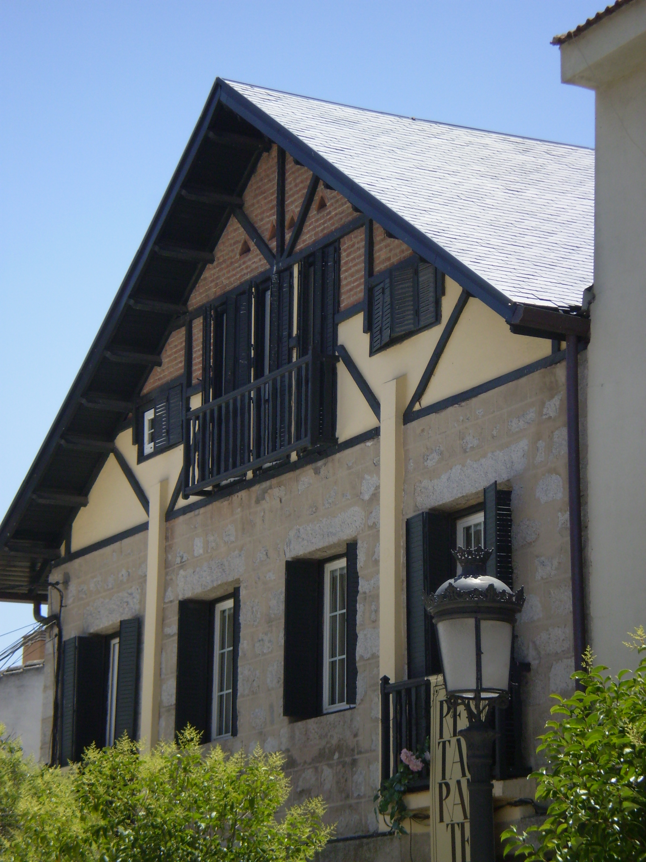 Building in Real Street. Torrelodones, Madrid, Spain